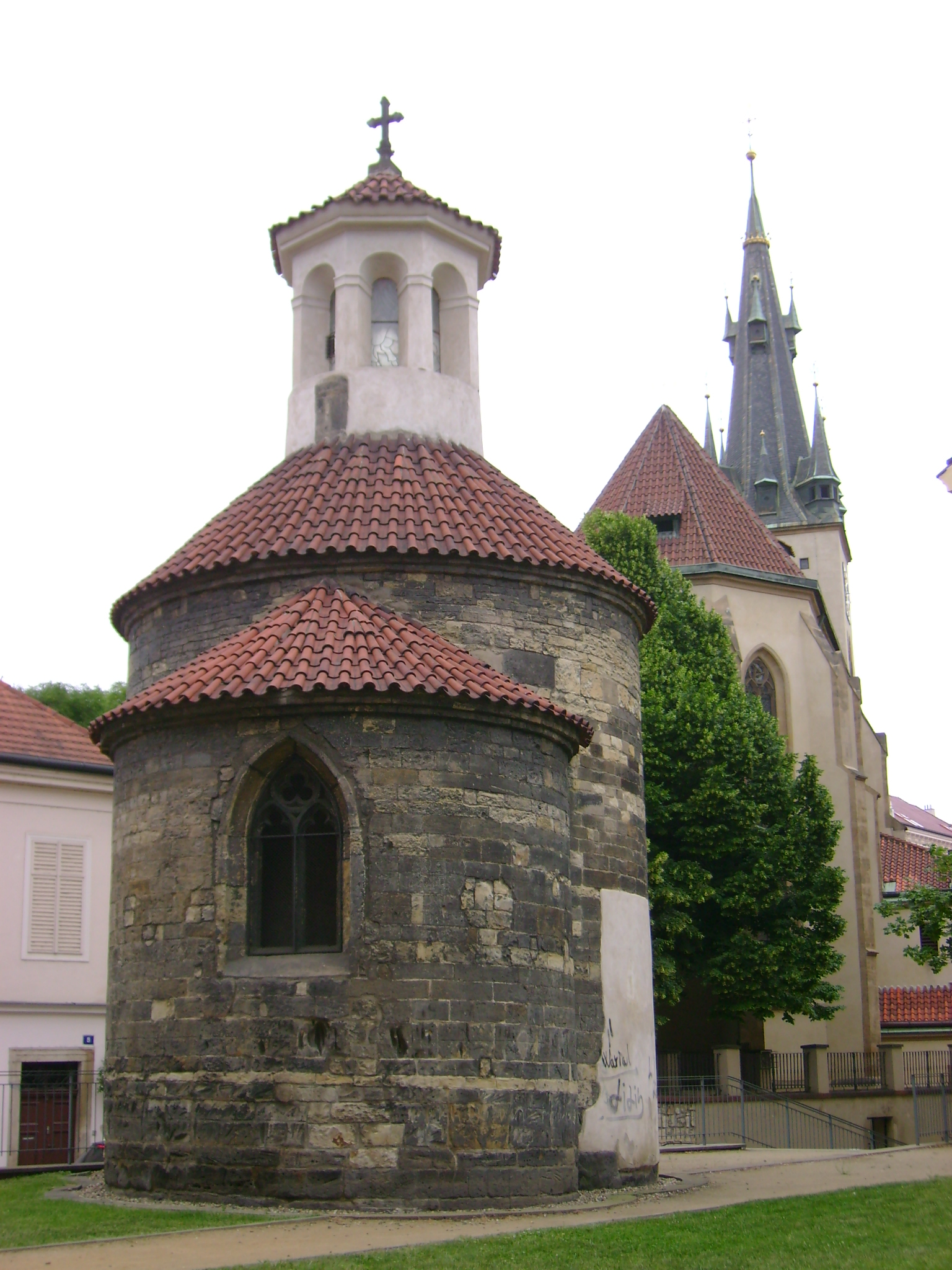 St. Longin's Rotunda, a romanesque rotundas in Prague, New Town, Na Rybníčku.